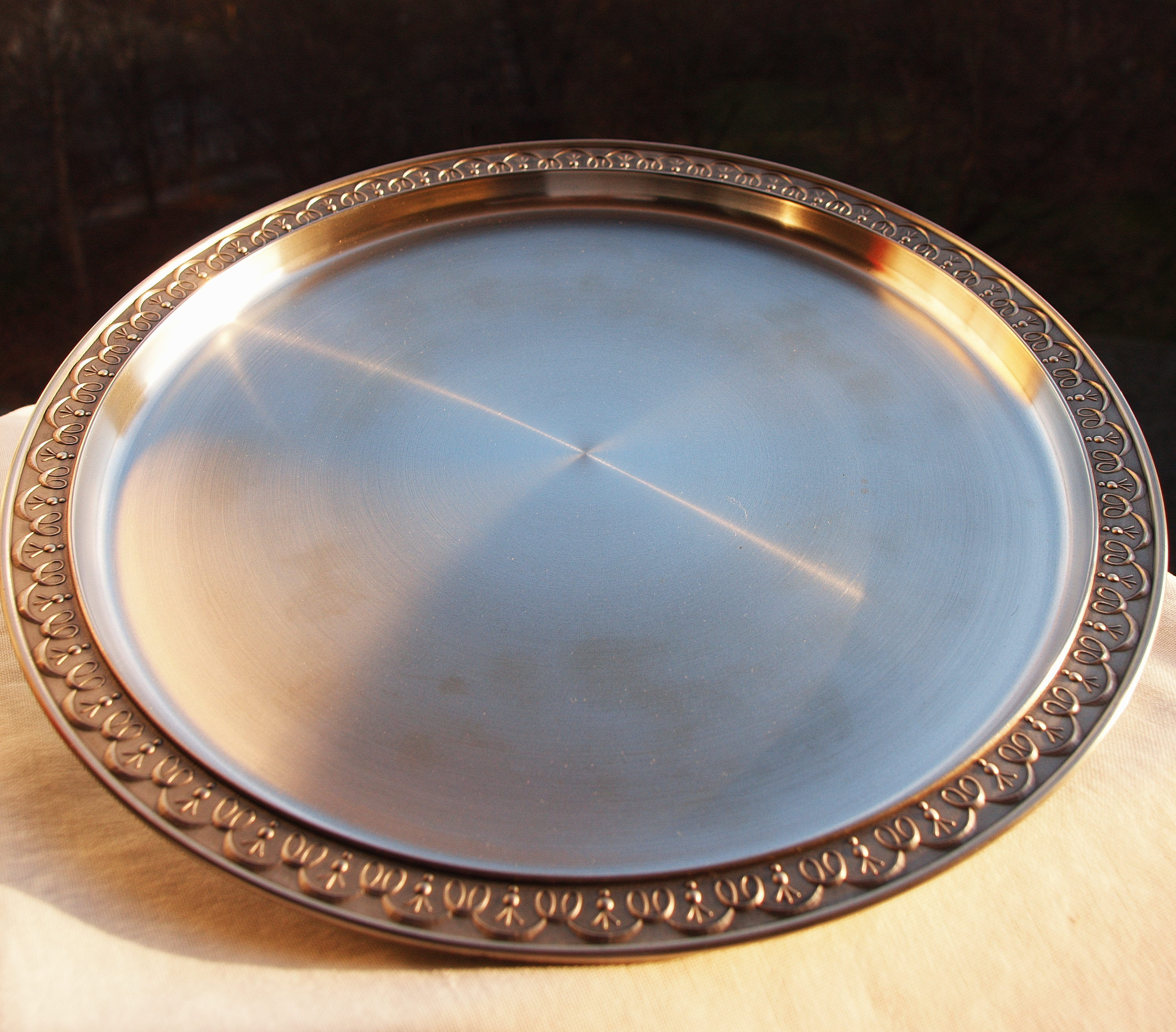 Enka pewtery tin plate, W. Germany